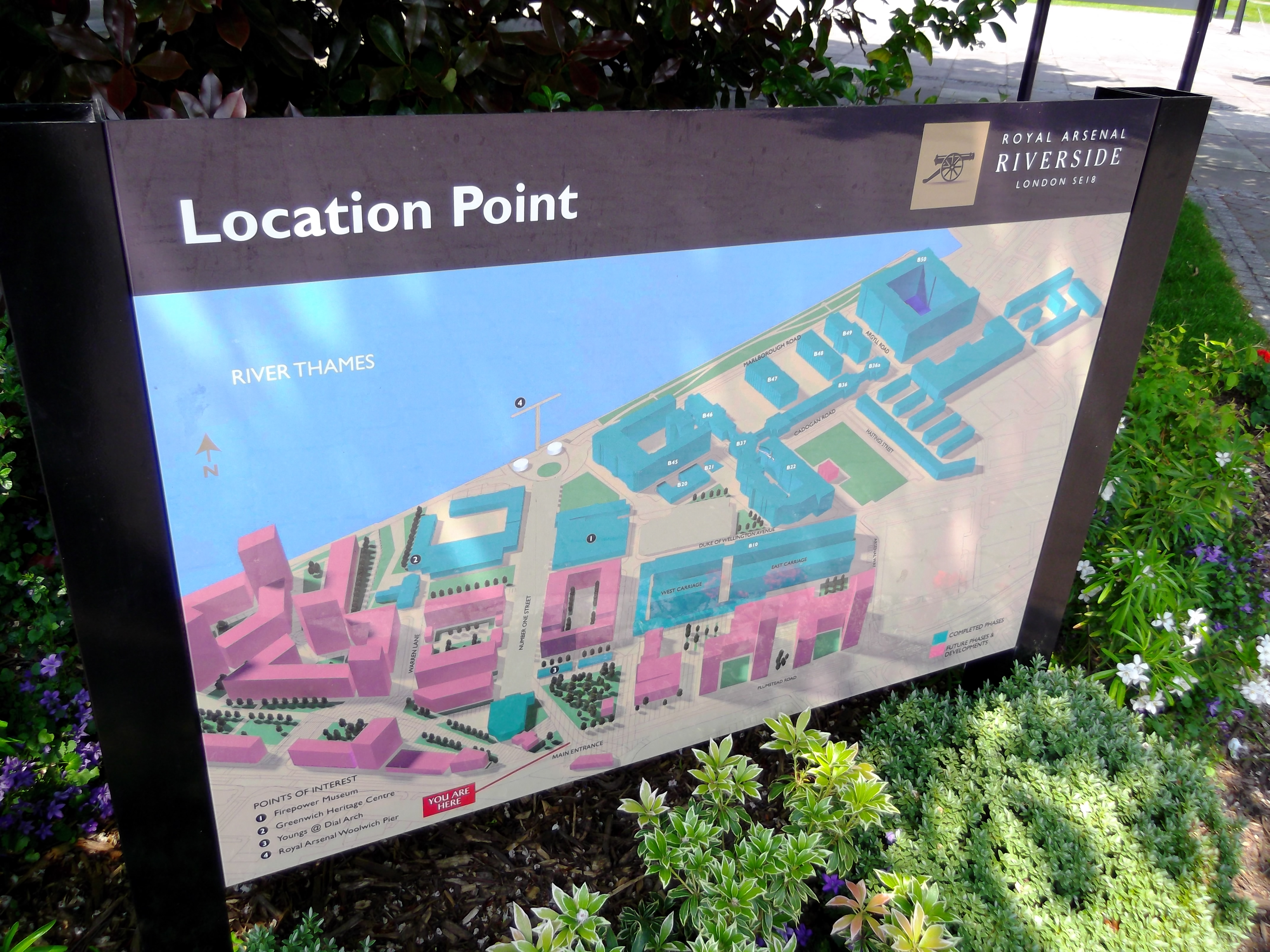 Royal Arsenal Woolwich London 009